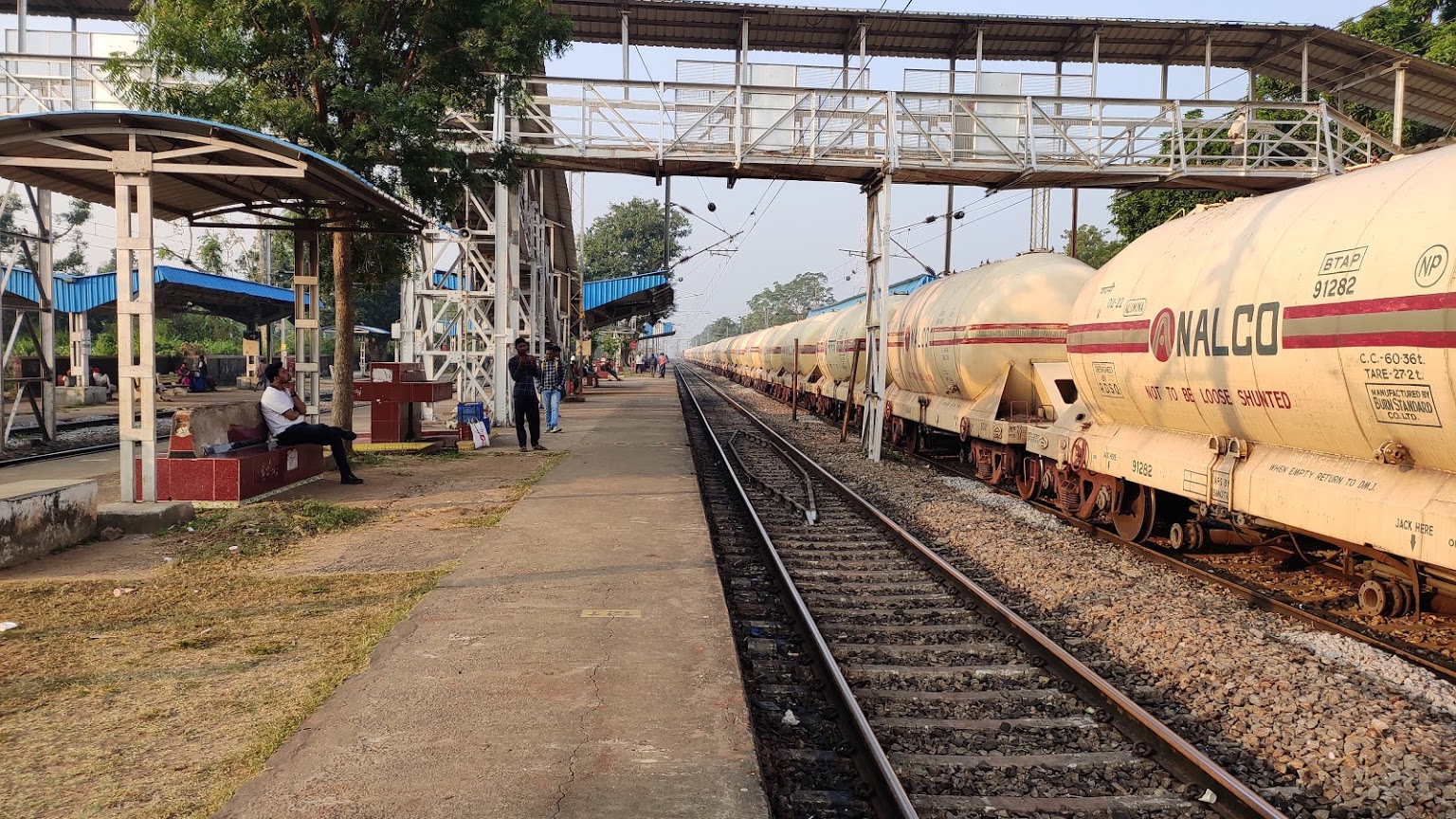 This is the Picture of Nirakarpur railway station